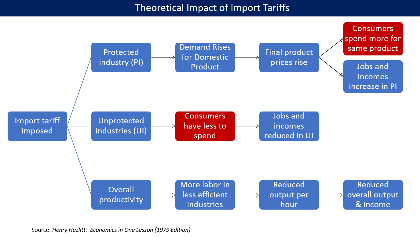 Effect of import tariff is to raise prices, employment and income in the protected industry, while reducing them in unprotected industries, mainly because consumers spending more for goods in protected industries have less to spend in unprotected industries.